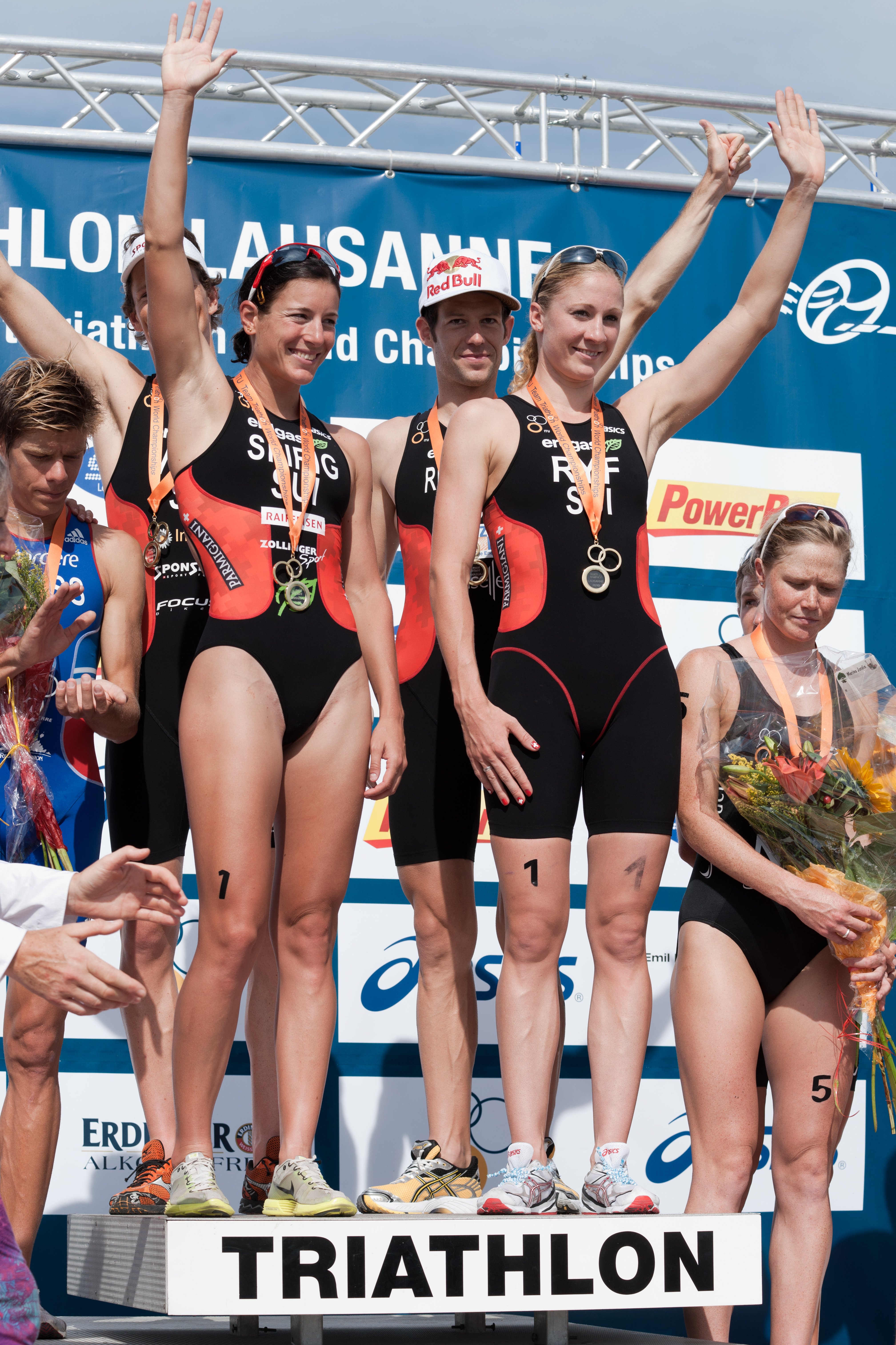 2010 ITU Sprint Distance Triathlon World Championships, Lausanne, Switzerland.